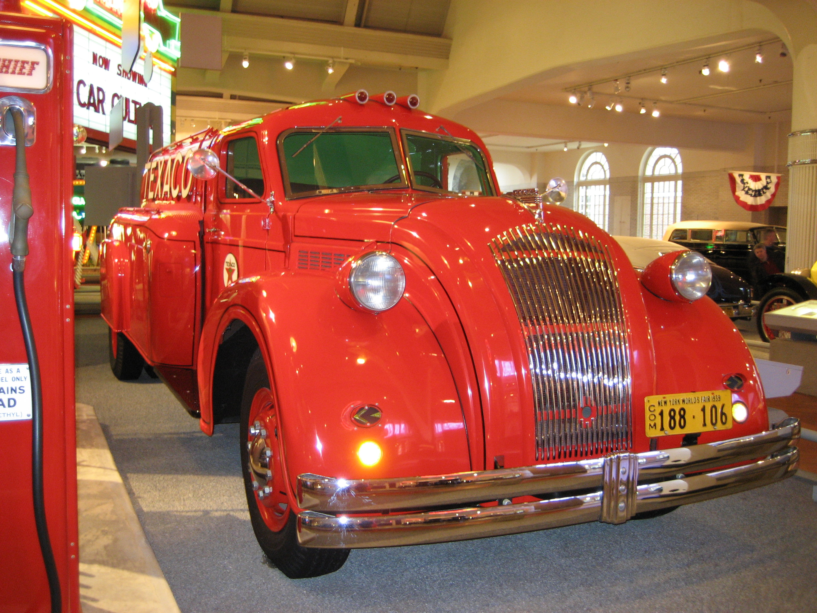 1939 Dodge Airflow Texaco tanker truck at the Henry Ford Museum.